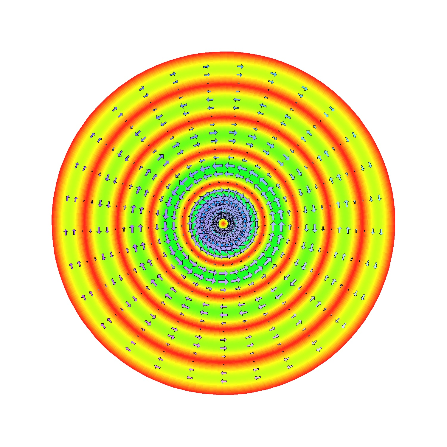 Plot of E and H fields on the TEnl mode defined by n and l.